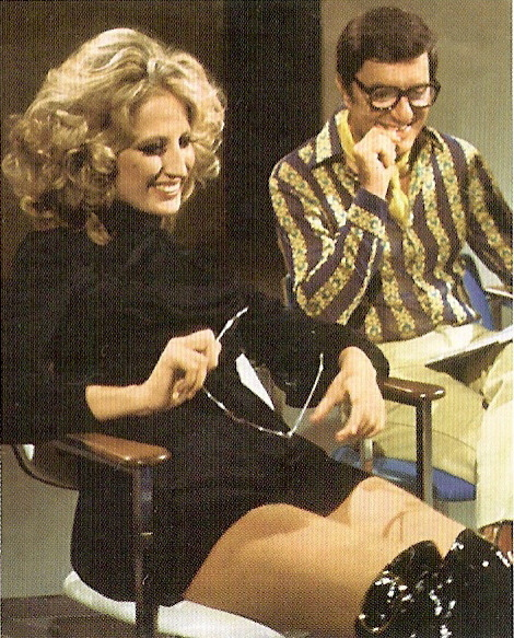 photo from the TV series Ieri e oggi (1961)